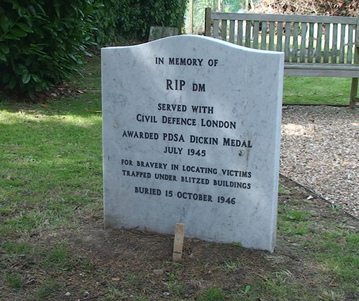 Rip (died 1946), a mixed-breed terrier, was a Second World War dog who was awarded the Dickin Medal for bravery in 1945. He was the first Air Raid Patrol's search and rescue dog, and is credited with saving over 100 lives. Rip is buried in the PDSA Animal Cemetery, Ilford, England. Still from a video (2010-09-01) taken with Sony HDR-HC7E camcorder, cropped and processed in Photoshop CS2 (2015-03-13).